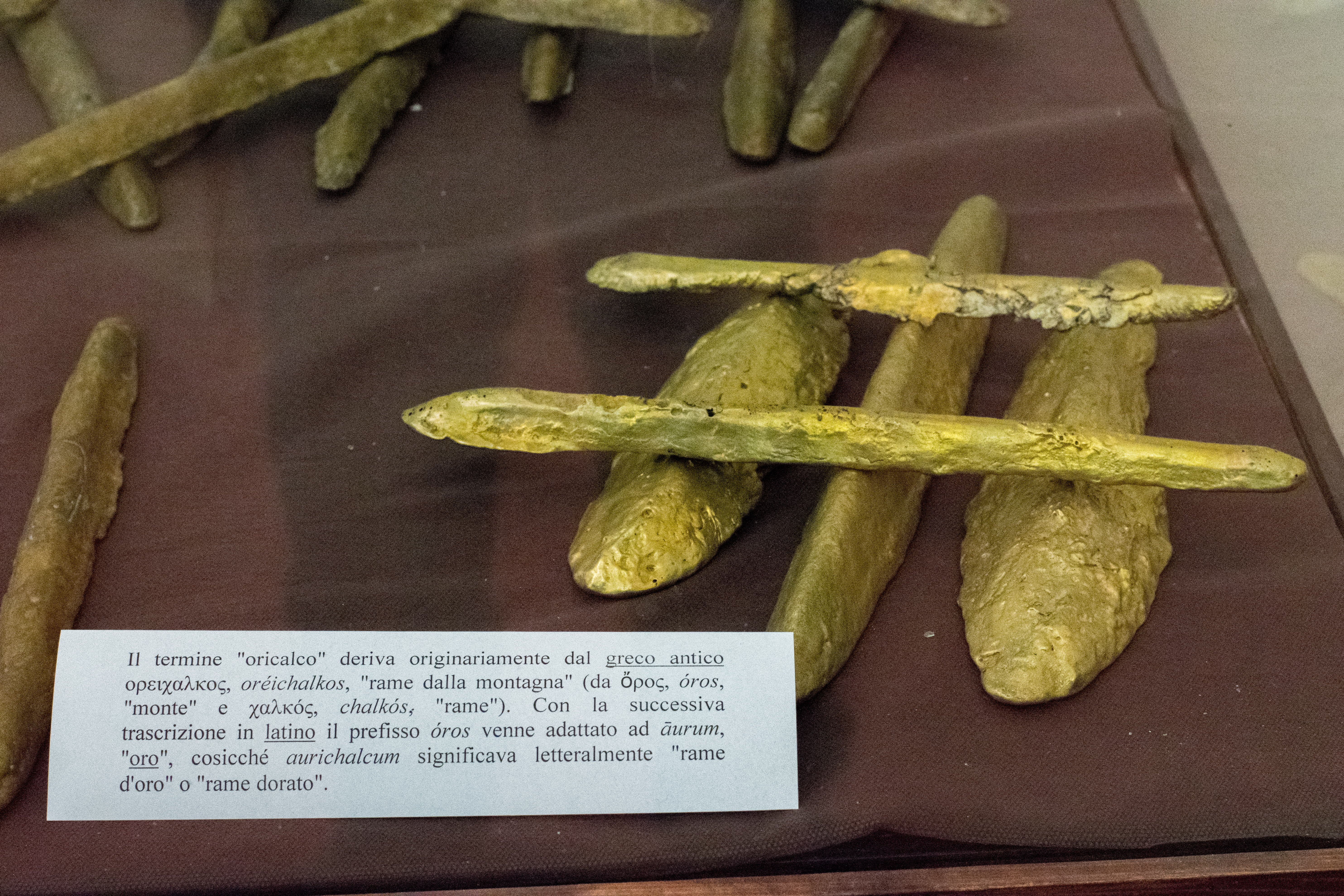 Bars of oricalco, Gela museum, Sicily